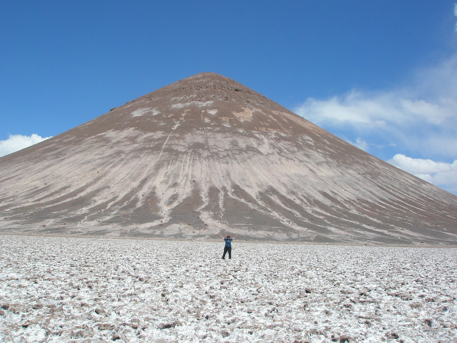 Cono de Arita in Salta province. Argentina